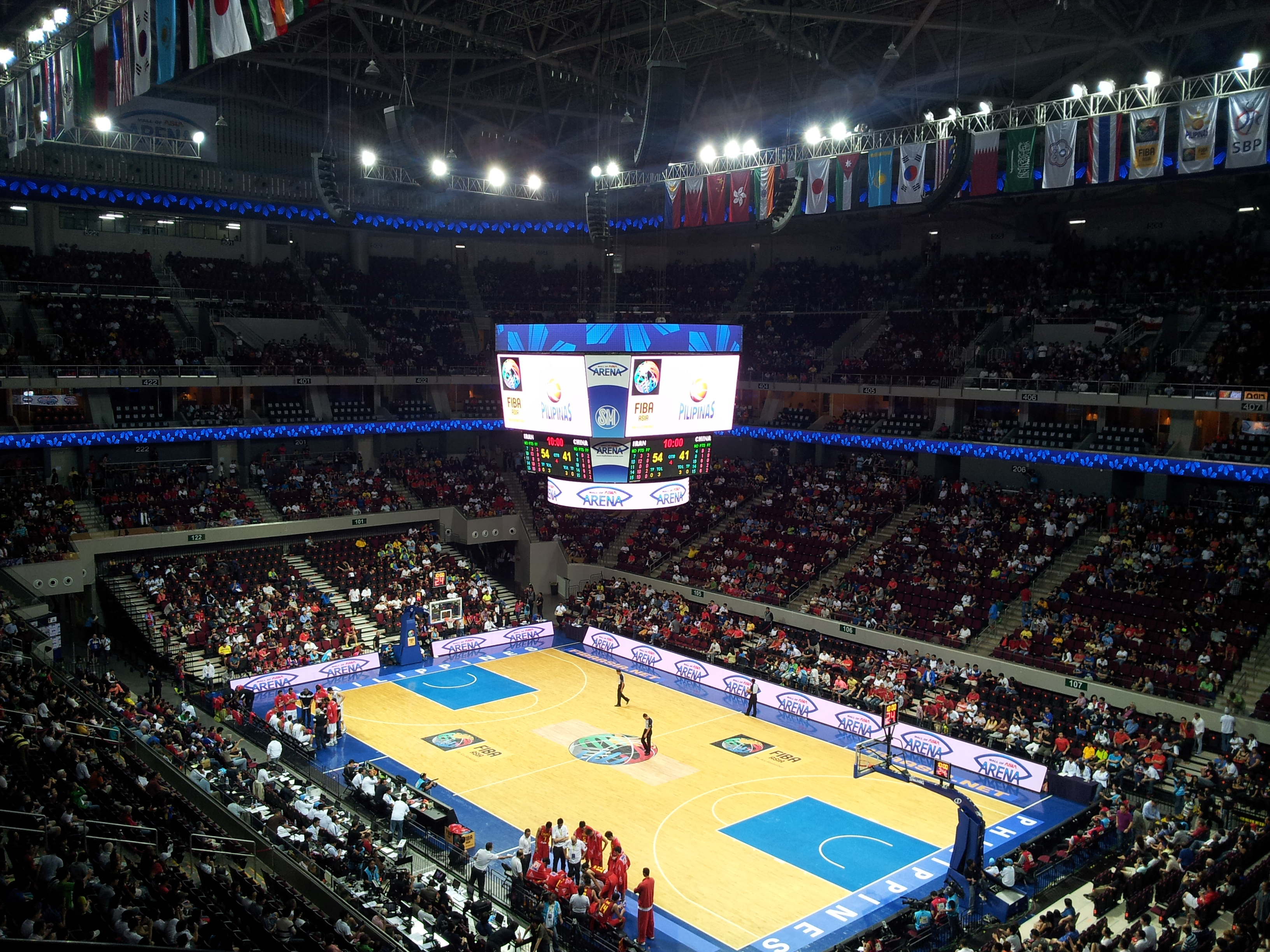 The Mall of Asia Arena during the 2013 FIBA Asia Championship.